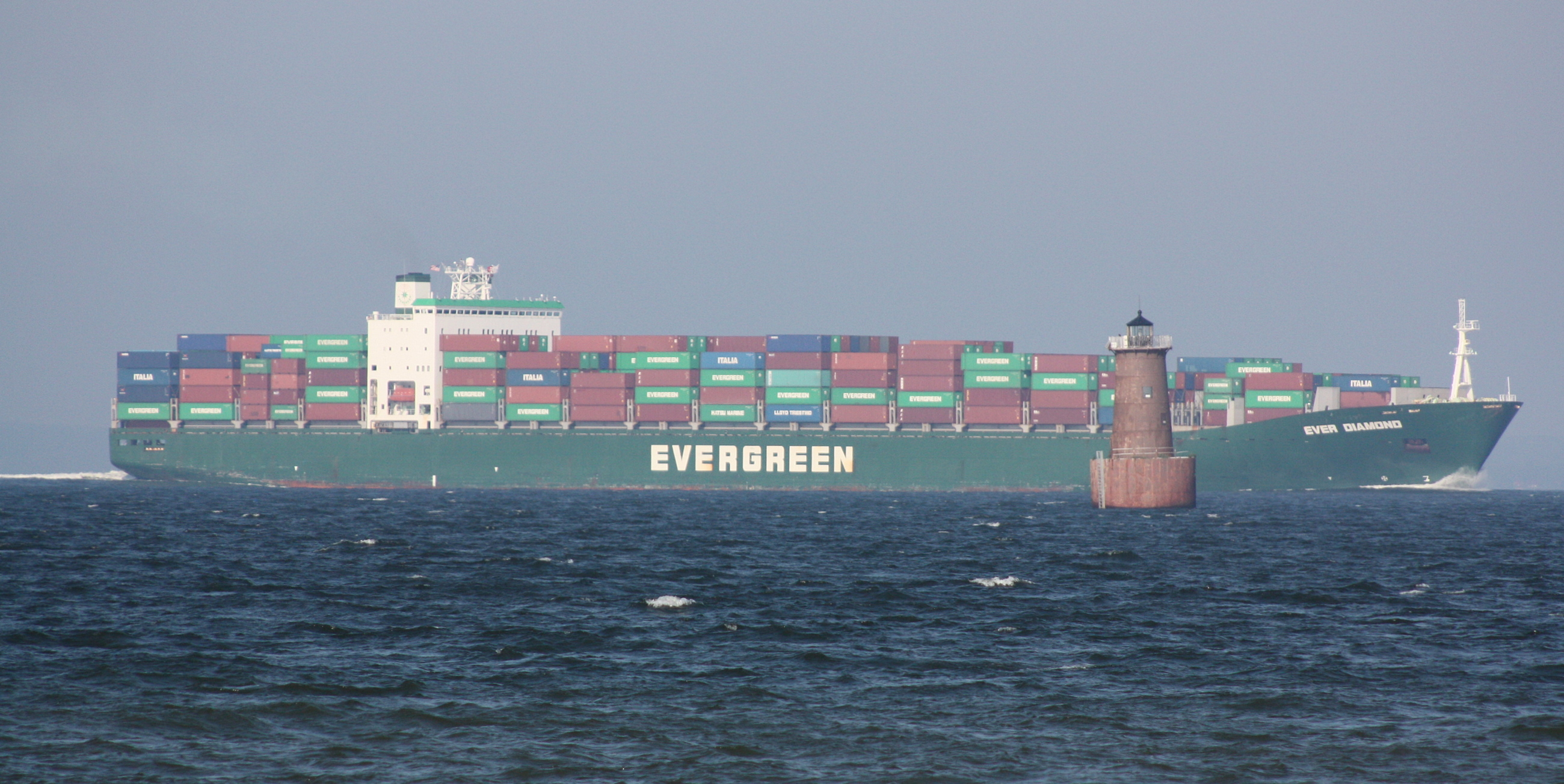 The cargo ship Ever Diamond near Bloody Point Bar Light in Cheasapeake Bay.